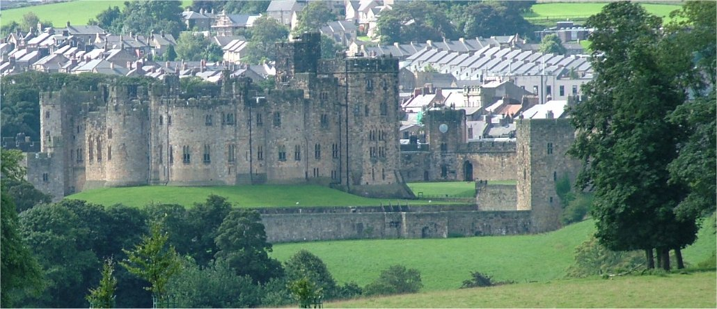 From en: Alnwick Castle - Alnwick - Northumberland - England - by & copyright User:Tagishsimon, 14th August 2004. Originally uploaded as Wikipedia:File:Alnwick Castle - Northumberland - 140804.jpg by Tagishsimon, and released under the GFDL.